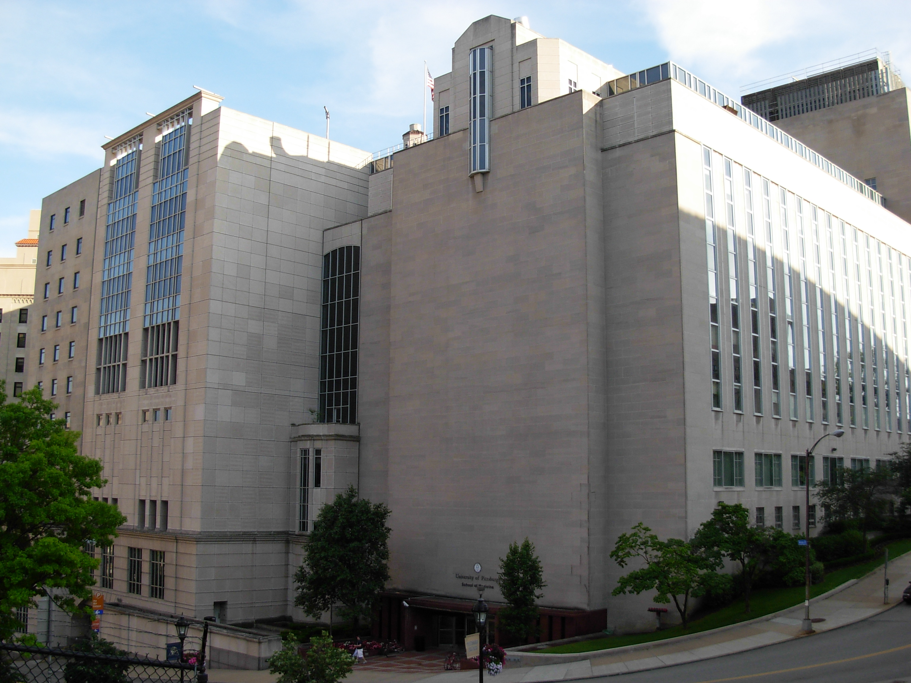 University of Pittsburgh Medical Center (left side of the photo) and Scaife Hall (left wing of, right side of the photo), University of Pittsburgh